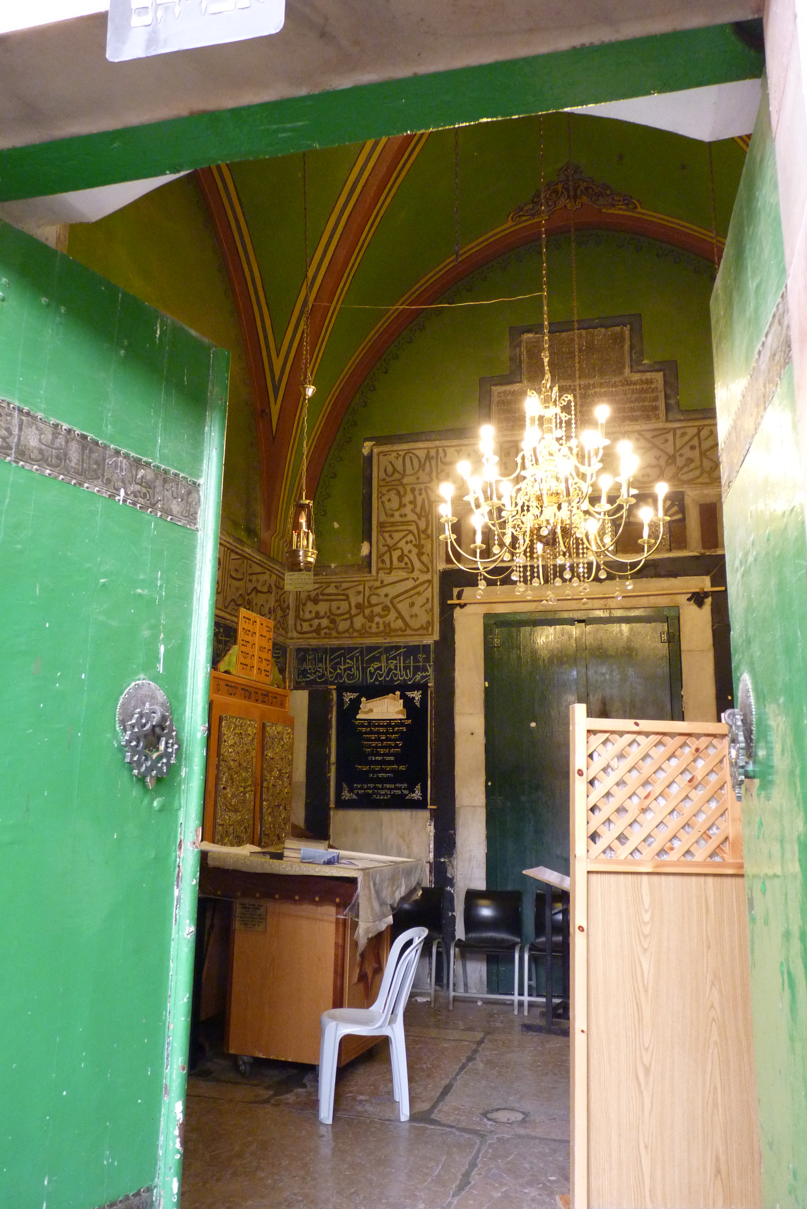 Cave of the Patriarchs.